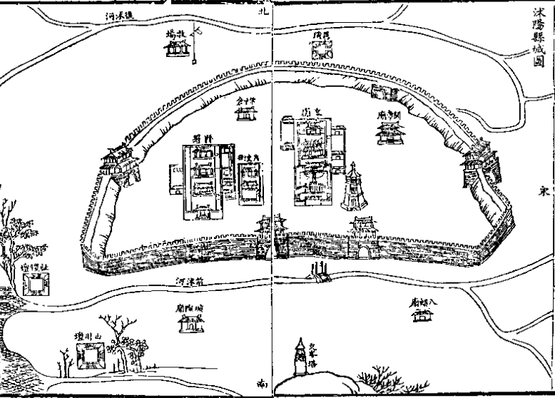 The figure is abstract from the 'Chorography of Haizhou 1803'